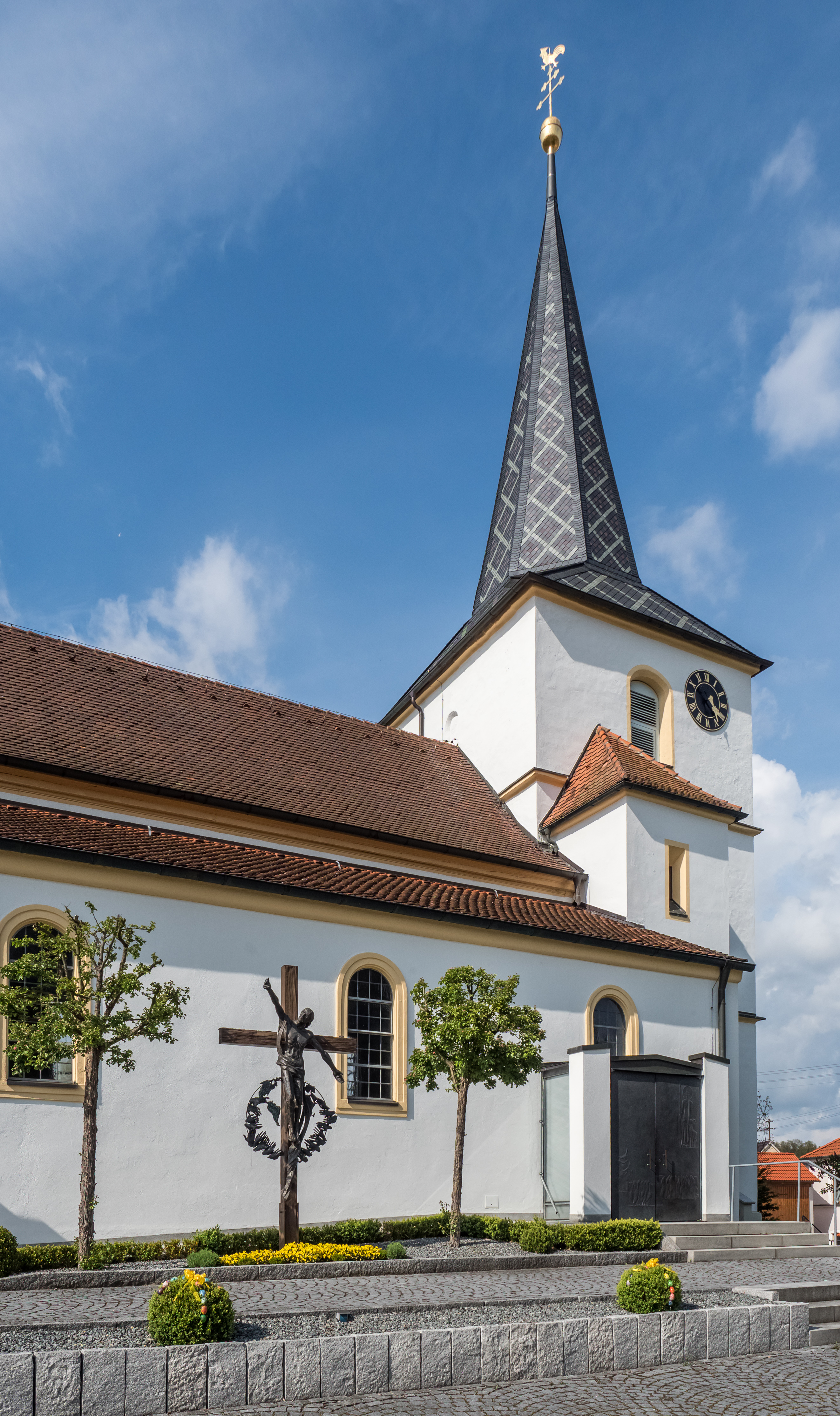 Catholic parish church St. Laurentius in Aisch (Adelsdorf)